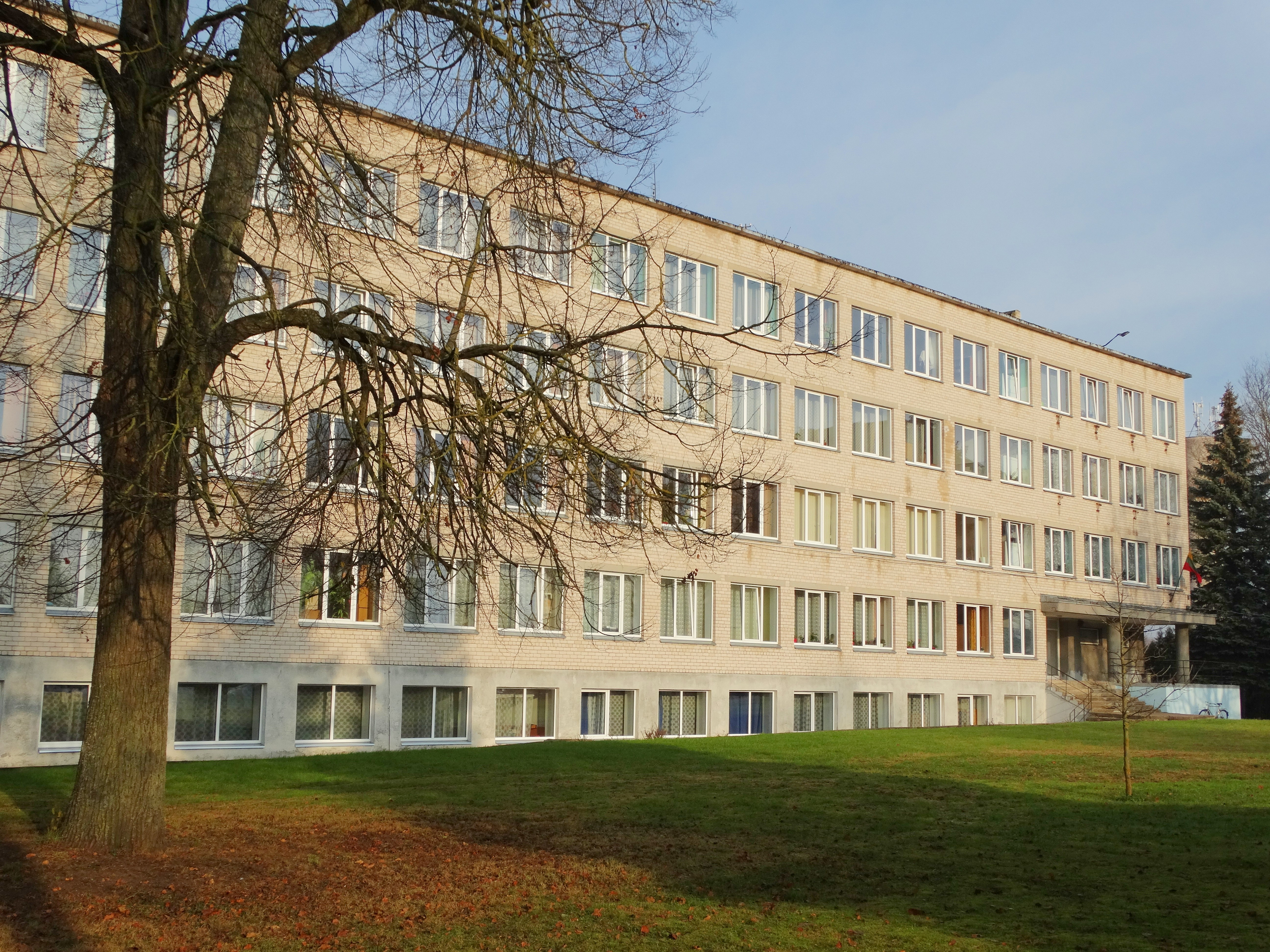 Vacational school, Vabalninkas, Lithuania